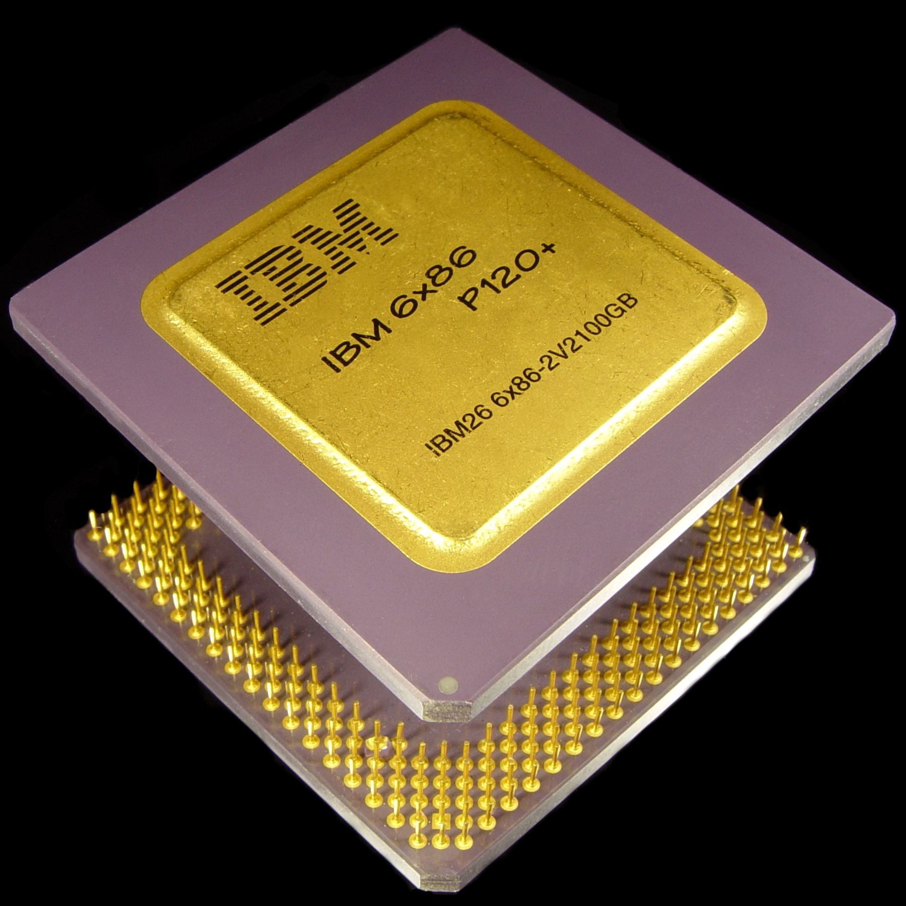 IBM 6x86 P120+ CPU Model 6x86 Architecture x86 Core frequency 100 MHz Manufacturing process 0.65 µm Transistor count 3000000 Release date February 5th 1996 IBM’s 6x86 microprocessors were manufactured using IBM’s .65 micron, five-level CMOS technology and designs from Cyrix. The names of IBM's new microprocessors reflect adoption of a new "P-rating" methodology for measuring microprocessor performance. P-rating has been introduced to allow end users to base purchases on relative PC performance levels, rather than just clock speed for the microprocessor.